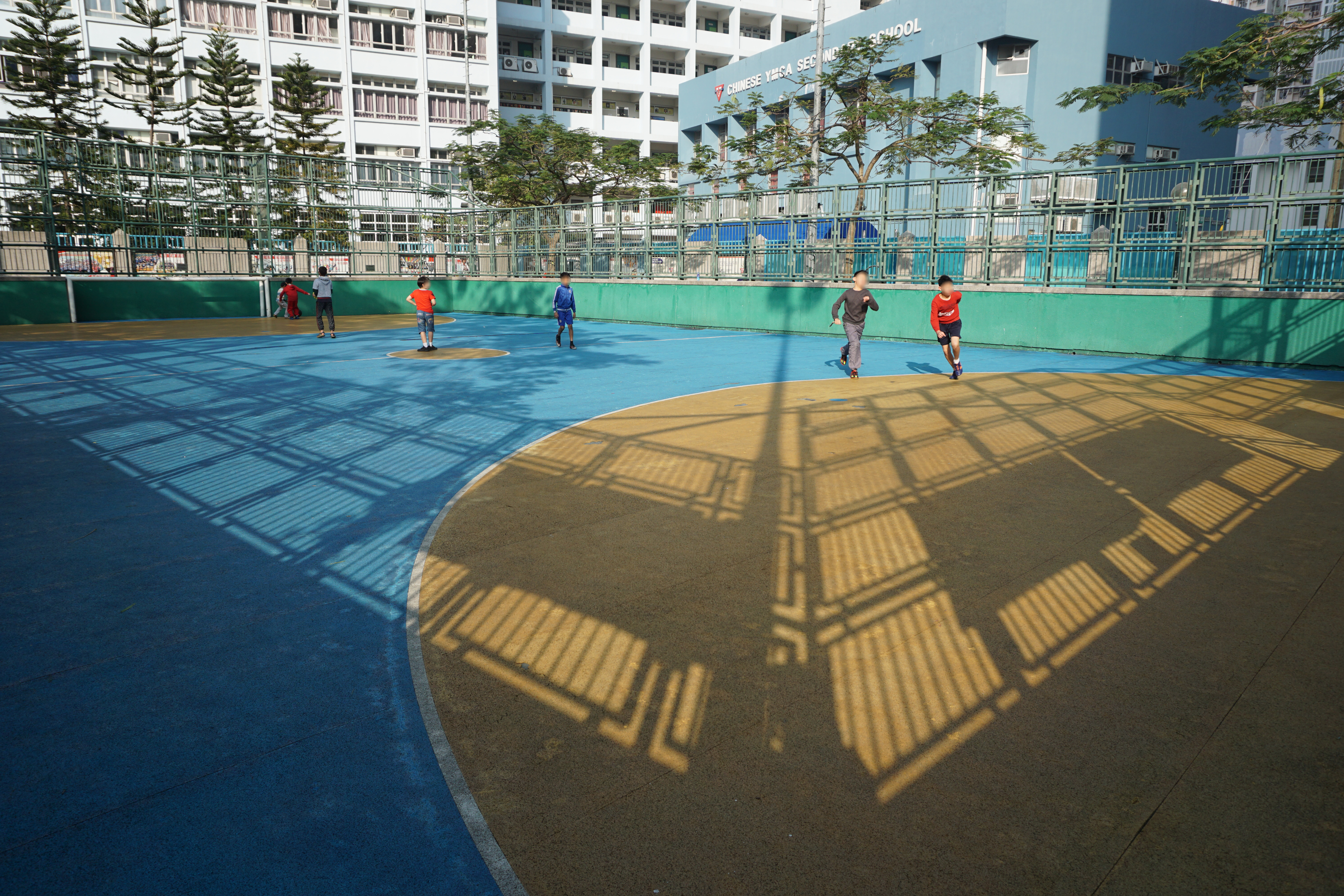 Tin Yuet Estate in Tin Shui Wai, Hong Kong.